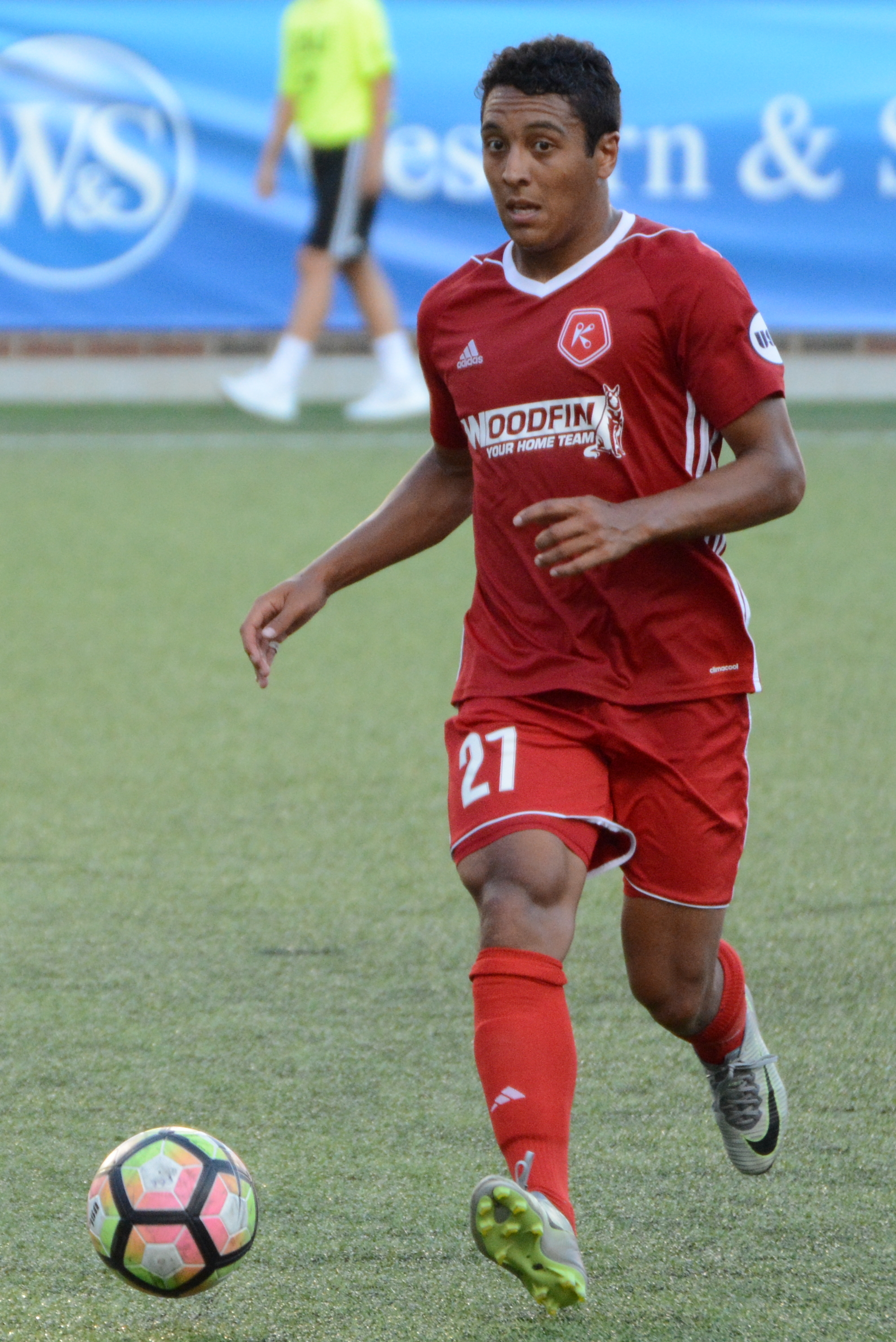 Taken during a USL regular season match between FC Cincinnati and Richmond Kickers at Nippert Stadium in Cincinnati, USA on July 9, 2017.